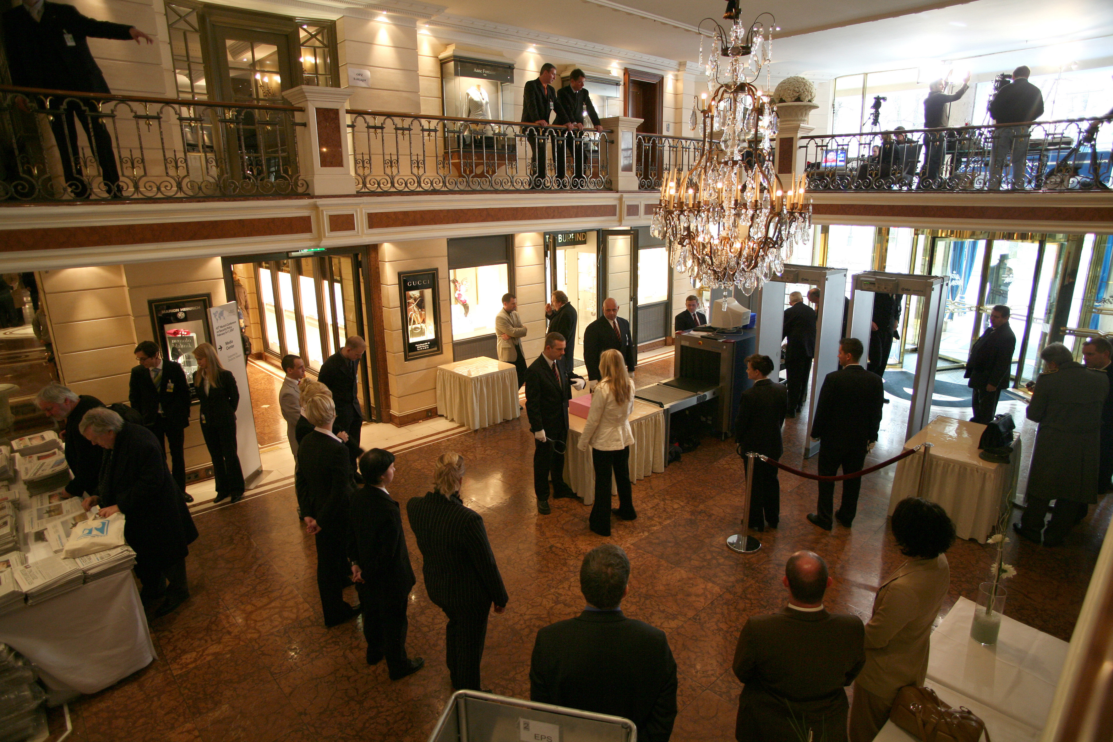 43rd Munich Security Conference 2007: First Impressions.